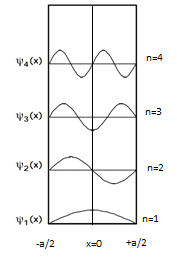 Variation of wave function with x and n